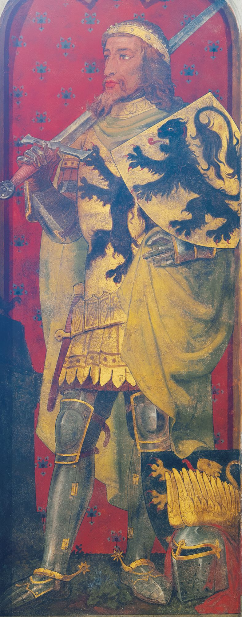 Louis II of Flanders